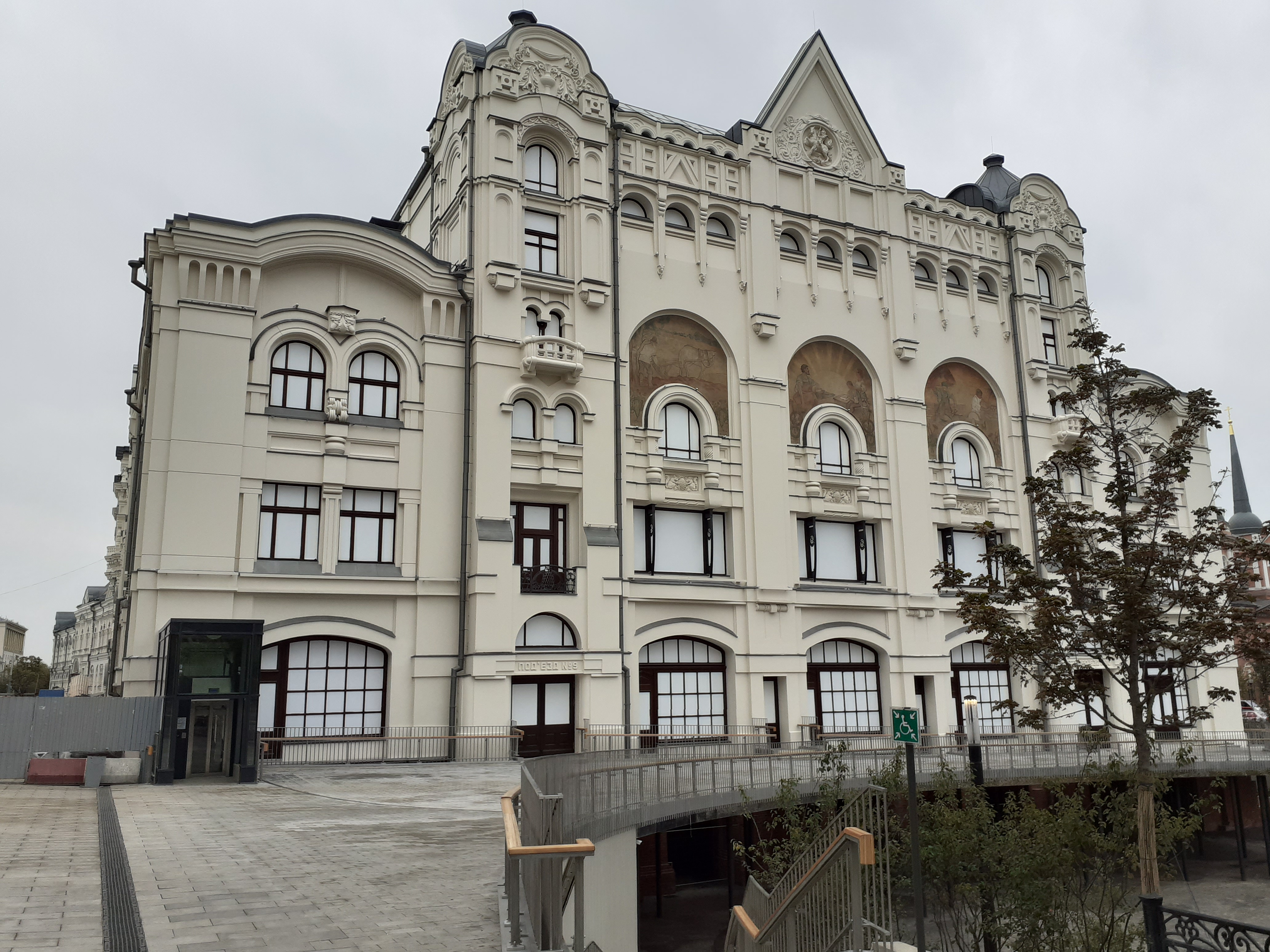 Moscow Polytechnical Museum after reconstruction